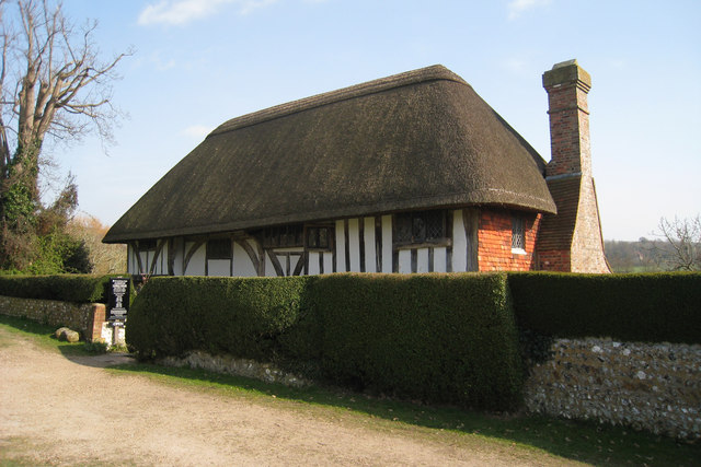 The Clergy House, Alfriston. This was the first building to be bought by the National Trust (in 1896 for £10). This thatched, half-timbered Wealden hall house dates back to ca 1350 and was used by priests from nearby Michelham Priory.